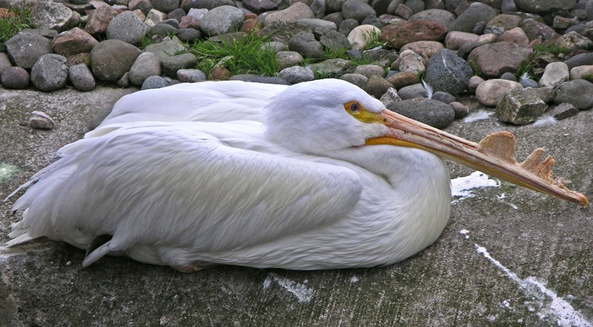 Pelican (Pelecanus erythrorhynchos) in Edinburgh Zoo.